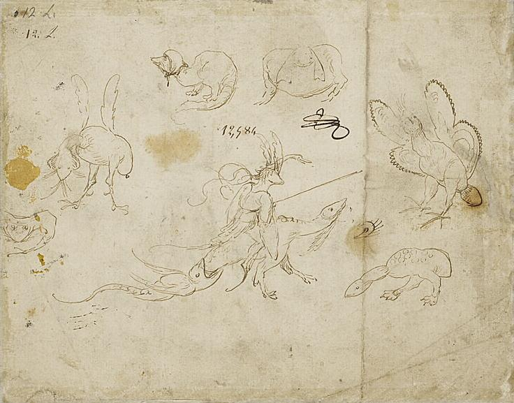 Reverse of a two-sided drawing. For the front, see File:Possibly Jheronimus Bosch 001 recto 01.jpg.